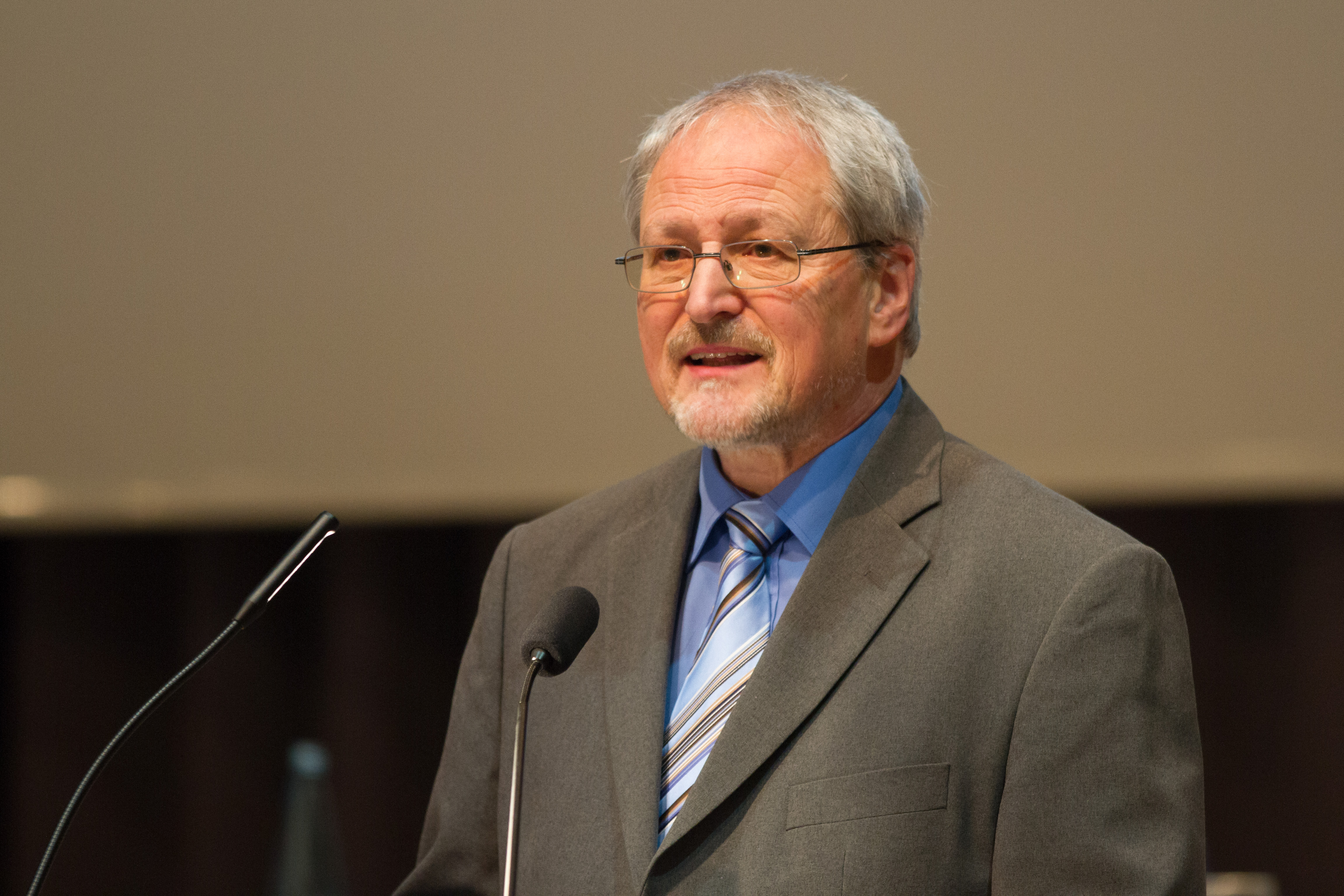 Series: 6th party convention of the AfD Baden-Württemberg in Karlsruhe-Neureuth on January 17th and 18th, 2015. Image: Bernd Grimmer